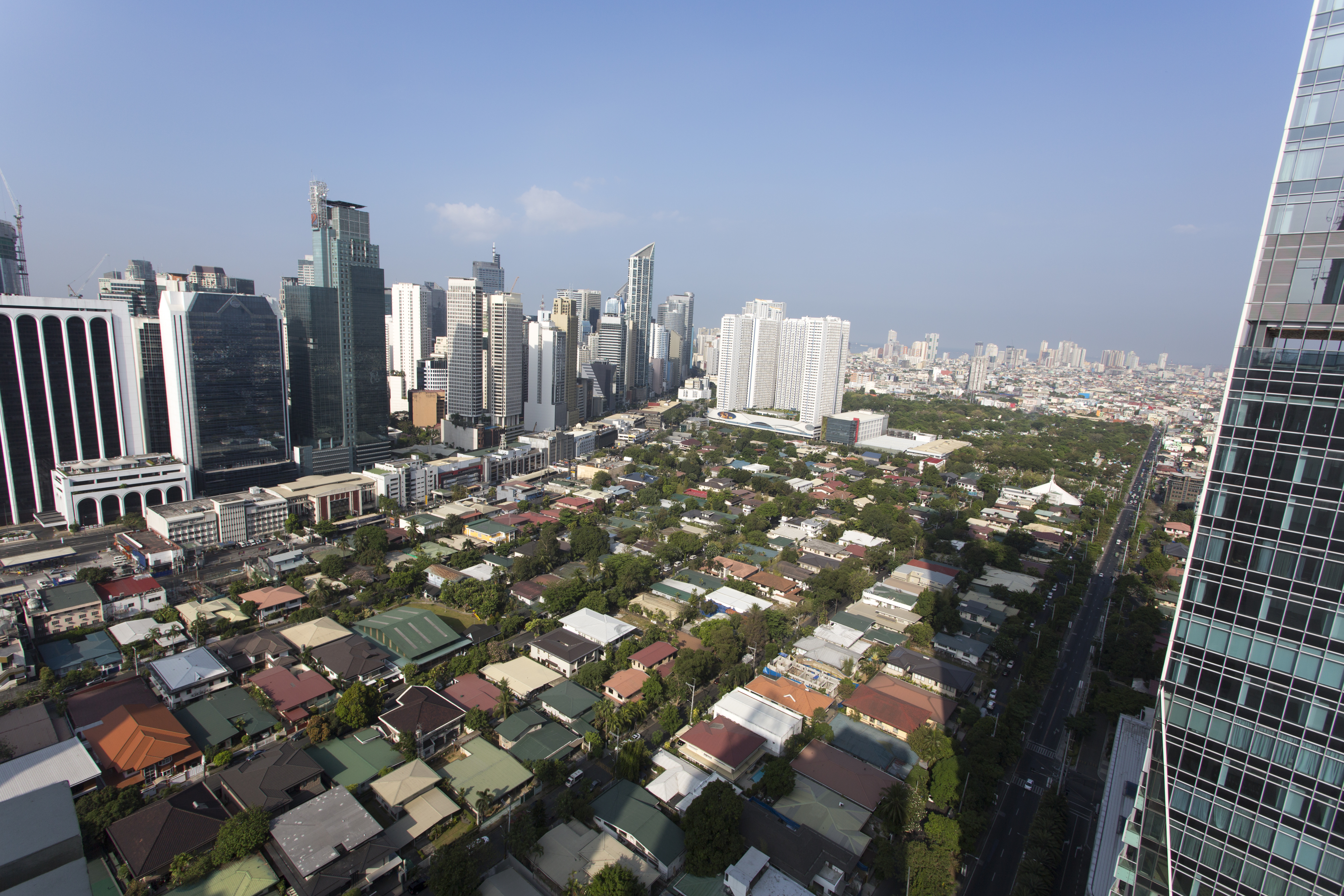 Skyline view of Makati with Bel-Air Village in the foreground.